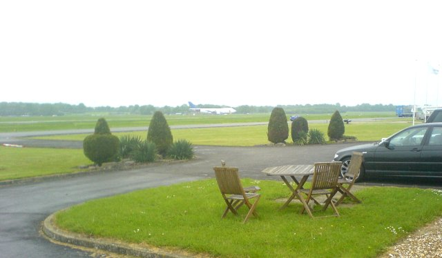 Dunsfold Aerodrome. This disused aerodrome is now home to an industrial park where most units are dedicated to servicing high performance and racing vehicles. Fans of the BBC series Top Gear will also recognise this as the location where the series records many of its external tests - indeed, the Top Gear studio 171446 is located in one of the old hangars. The start/finish line for many of the show's series' races is on the track towards the right of the picture and indeed the blue Chevrolet Lacetti, used for "Star in a reasonably priced car" is actually just visible behind the small tree in the foreground. The aerodrome is now closed for public use and is under private ownership. Unfortunately the weather was terrible on the day the picture was taken.